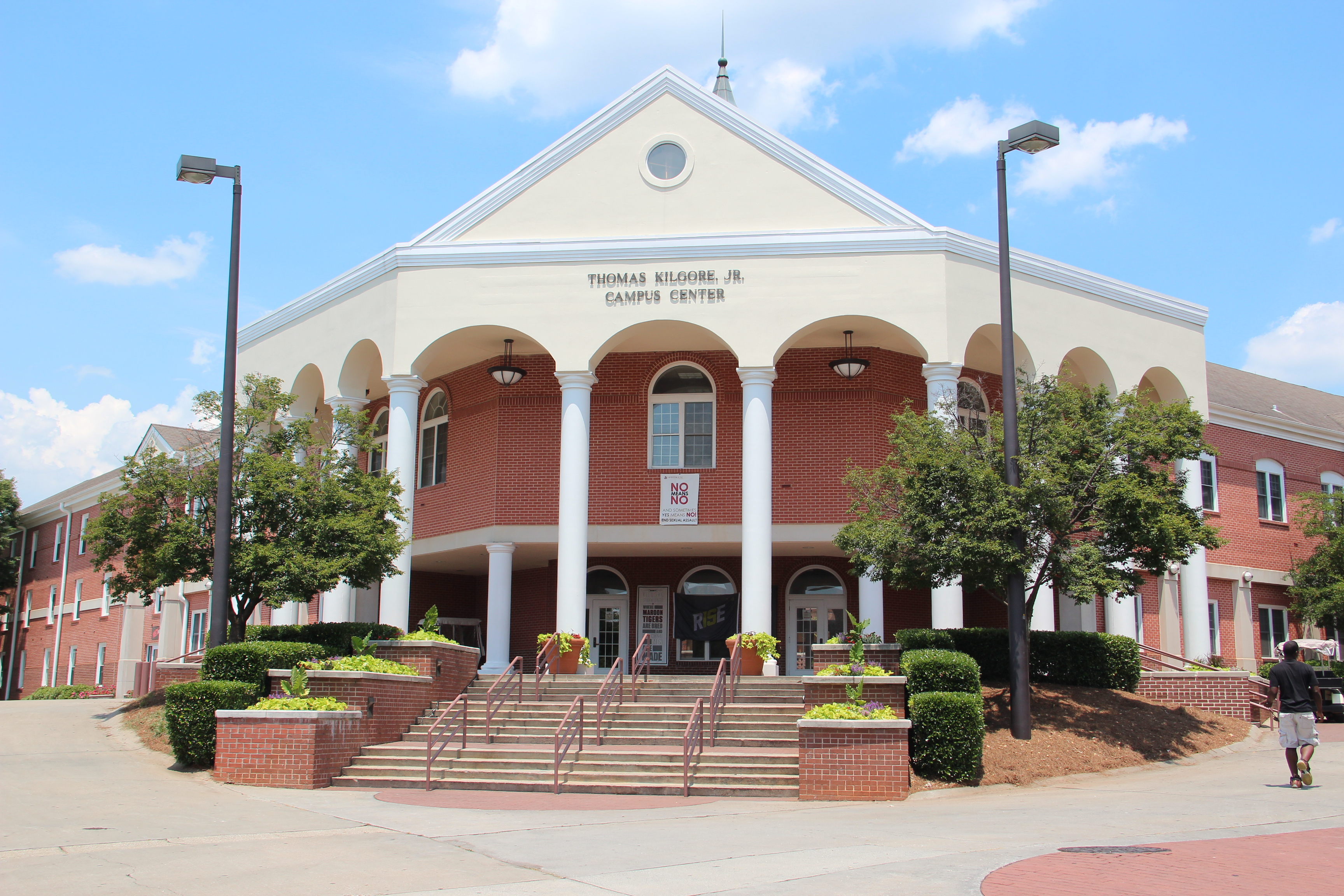 Kilgore Campus Center, Morehouse College, 2016